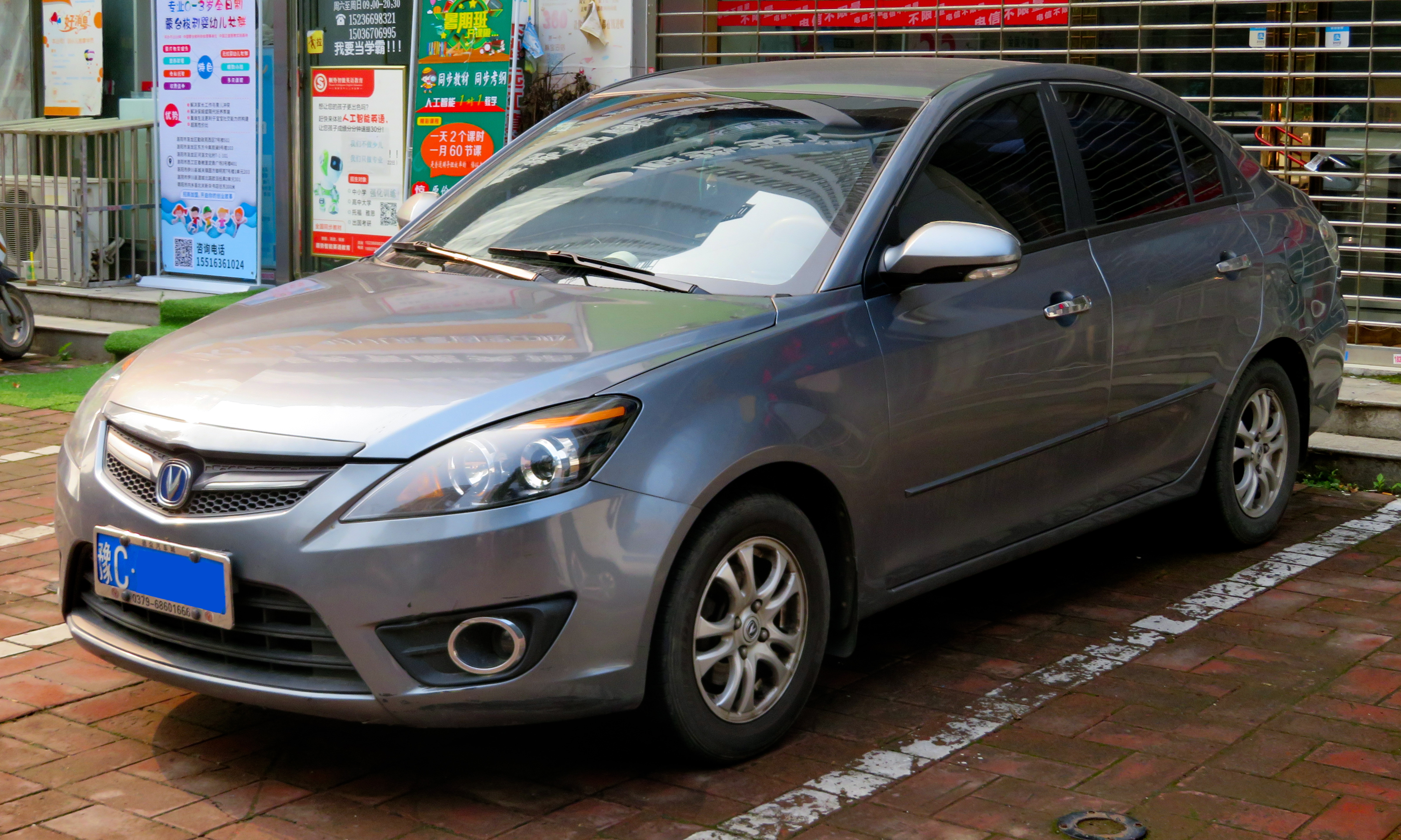 A 2012 Chang'an Alsvin facelift photographed in Luolong District, Luoyang, Henan province, China